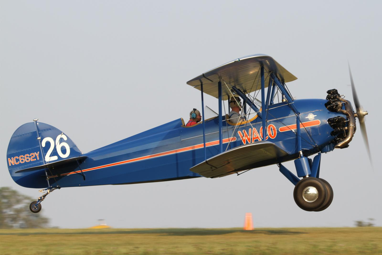 Waco ASO (NC662Y)